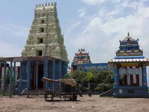 Photograph of peddintlamma temple at kolletikota